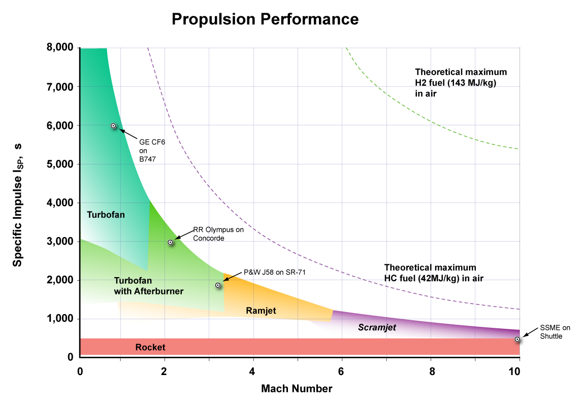 Specific impulse vs. mach number of several types of rocket and air-breathing engines.